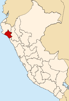 Location of the Lambayeque region in Peru